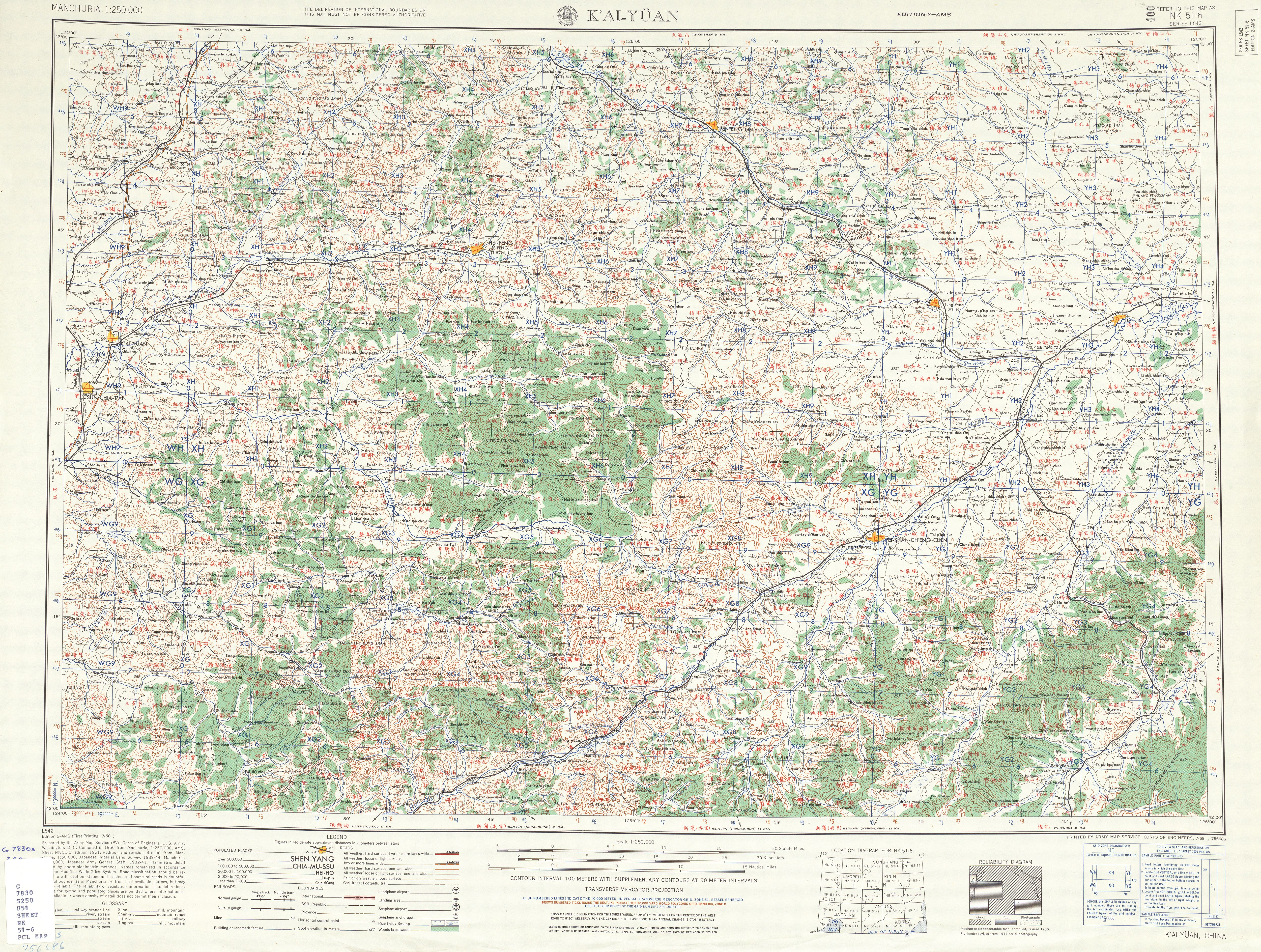 Manchuria AMS Topographic Maps